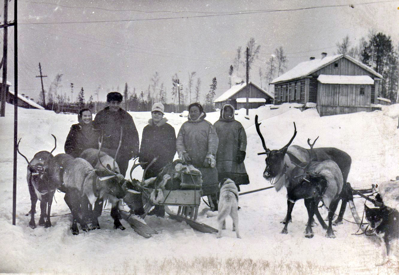 Three Russians (left) and two Mansi in the north of the Sverdlovsk Oblast